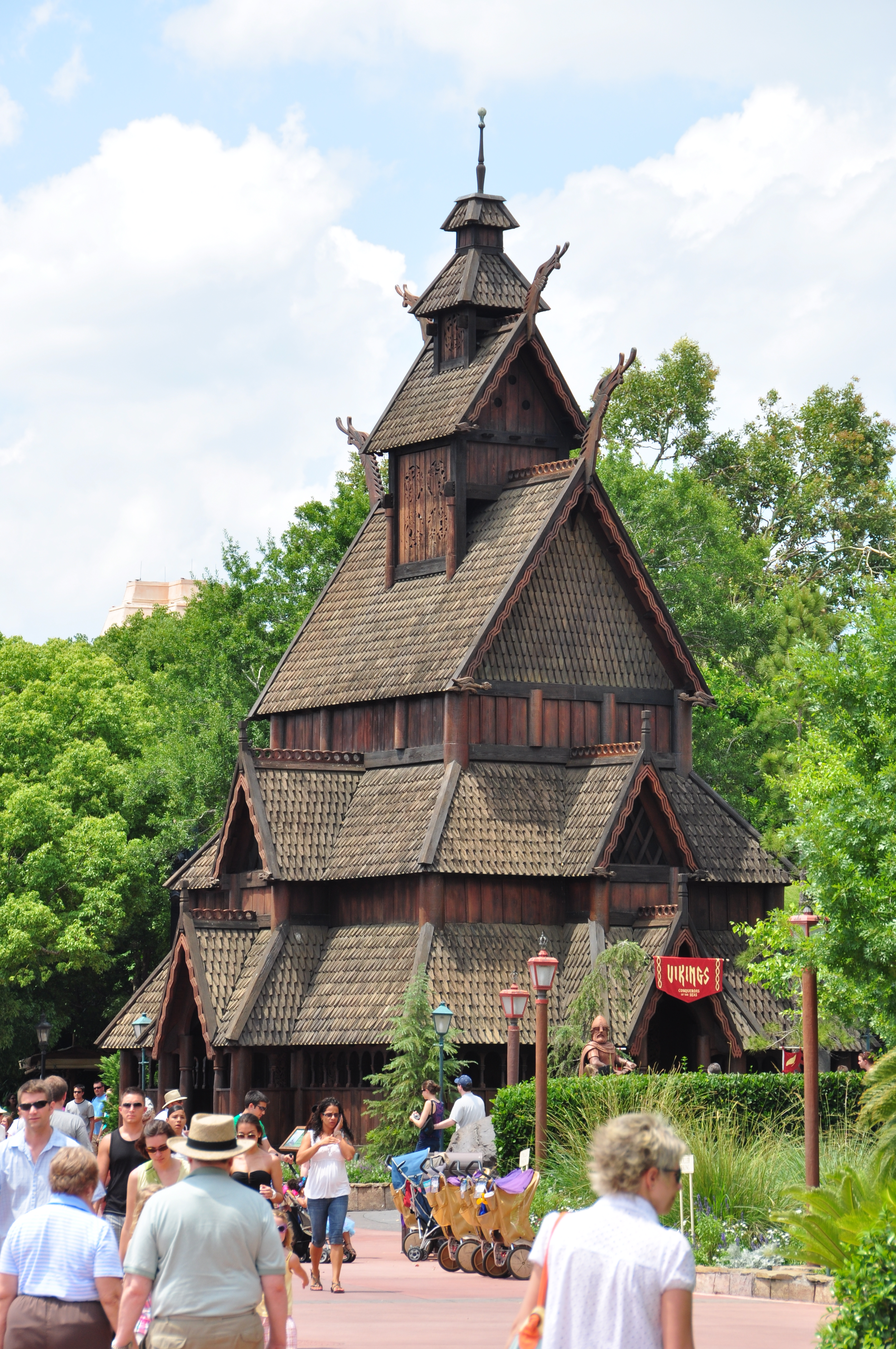 Epcot Norway Walt Disney World Orlando 2010